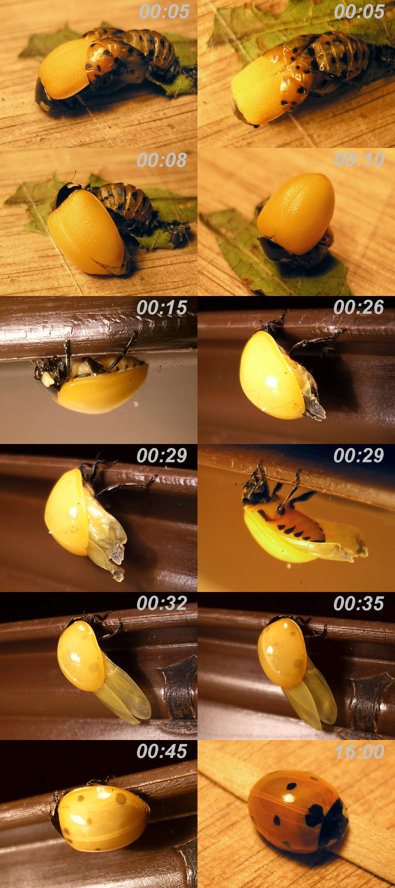 Seven-spot ladybird (Coccinella septempunctata) emerging from its pupa.Note that even the elytra need to be pumped up; At first wrinkled and "open" towards the hind body. Around 10 minutes after emergence began they're closed, five minutes later they're fully stretched (smooth now) and the beetle has wandered off to find a spot for pumping up the wings. During the pumping of the wings also the colouration of the elytra slowly begins to develop. About half a day later the beetle clearly has its characteristic colours - although still visibly fresh.Location: Hengelo, Overijssel, NetherlandsKeywords: ladybug, lady beetle, 7-spotSee also: P4b species page (or category).